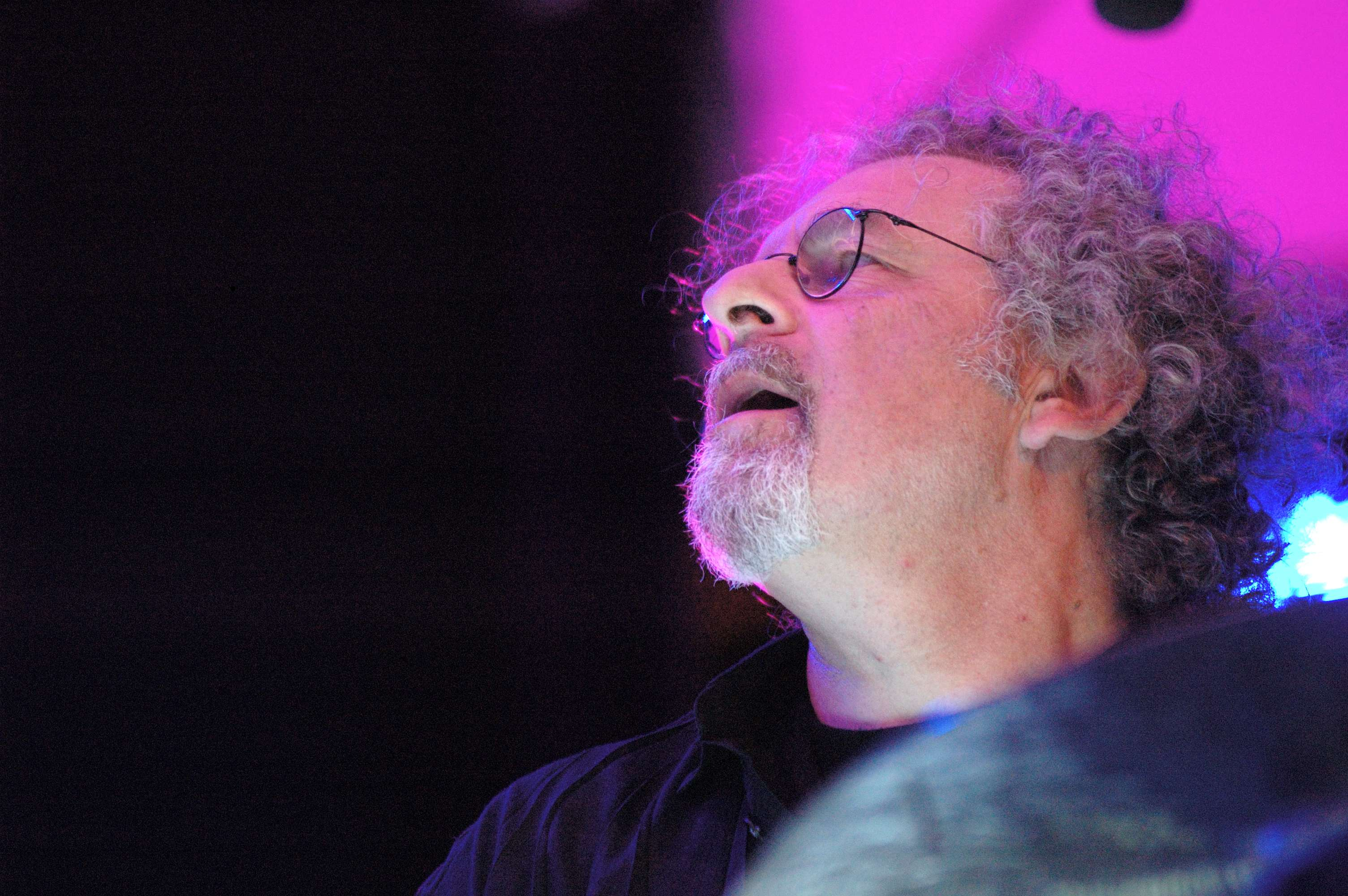 Portrait of André Ceccarelli, french jazz drummer, taken on 2007-08-08 during the "Cap Jazz" Festival in Cap d'Ail (French Riviera).